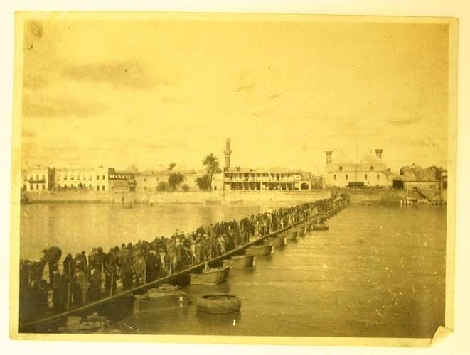 People Crossing a Pontoon Bridge, Baghdad, Iraq, World War I, 1917-1919